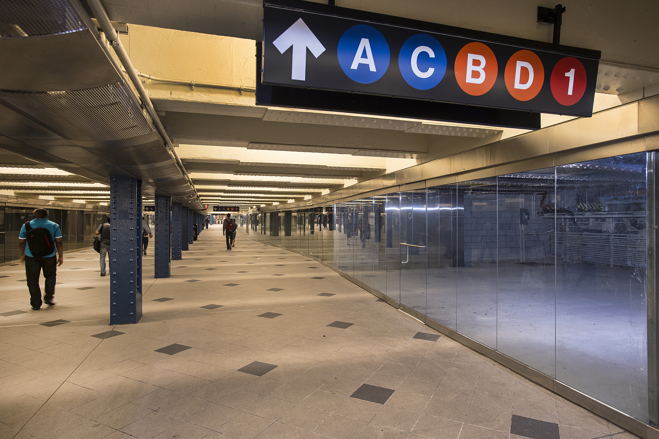 Newly rehabilitated retail space is available at 59 St-Columbus Circle. In a move to more effectively manage its real estate portfolio, the MTA is accepting proposals from real estate companies seeking to master lease the 13-store retail concourse at the recently renovated 59 St-Columbus Circle subway complex. Firms interested in bidding for the space must submit proposals by September 14th at 3 p.m. The firm being sought would be responsible for selecting and managing subtenants for 13 stores on the mezzanine level totaling 11,500 square feet, and would bear the associated risks. The firm would also market the space to the public as a retail destination, coordinate and maintain general oversight of deliveries and waste disposal, and maintain circulation areas that are adjacent to the stores. This is the first time that the MTA is seeking to enter into an arrangement with a private sector firm that will be responsible for subletting individual retail spaces and for maintaining adjoining public areas within the transit system. Photo: Metropolitan Transportation Authority / Patrick Cashin.